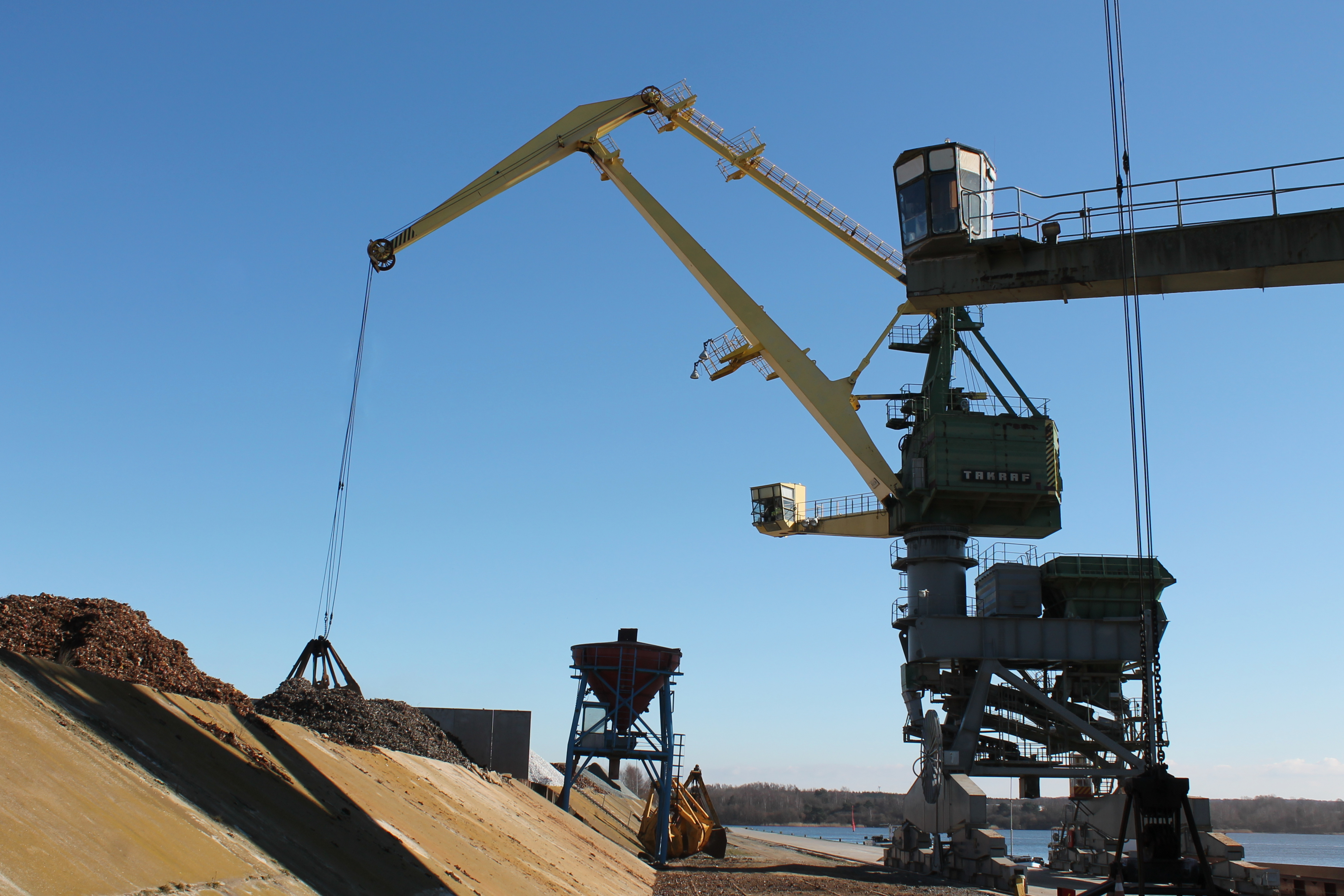 Umschlag am Lehmannkai 3